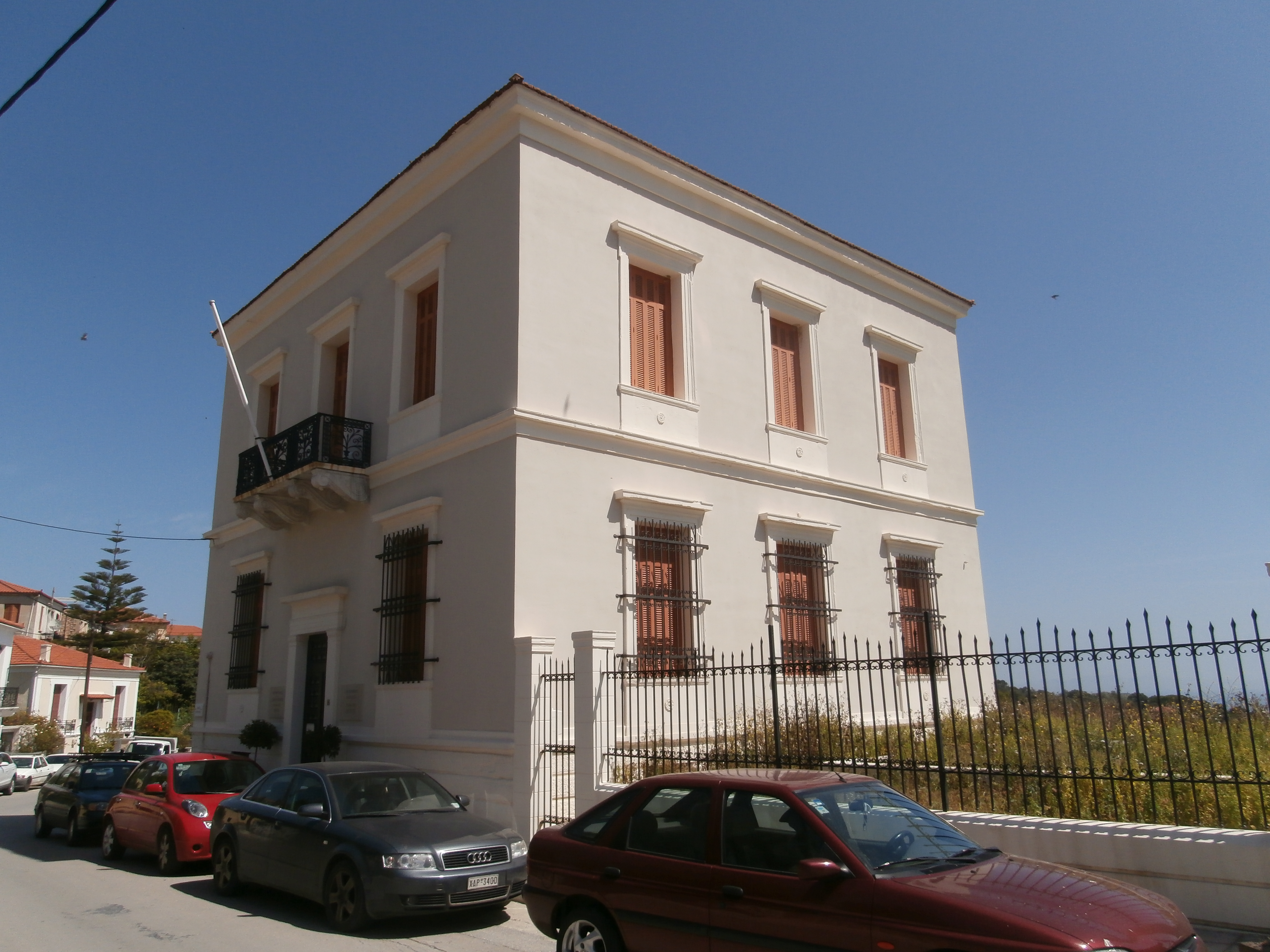 Folckfore museum of Kymi